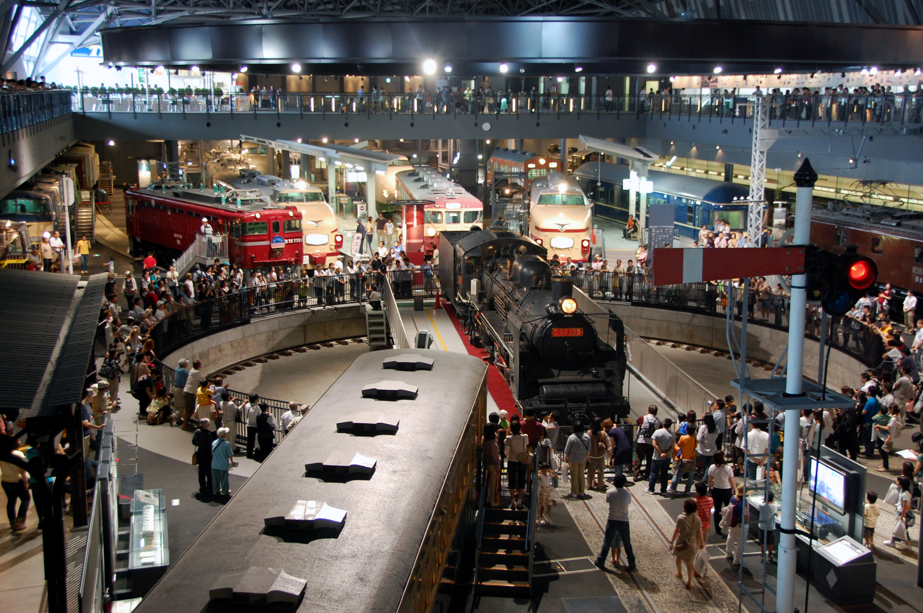 The Railway Museum in Saitama, Japan